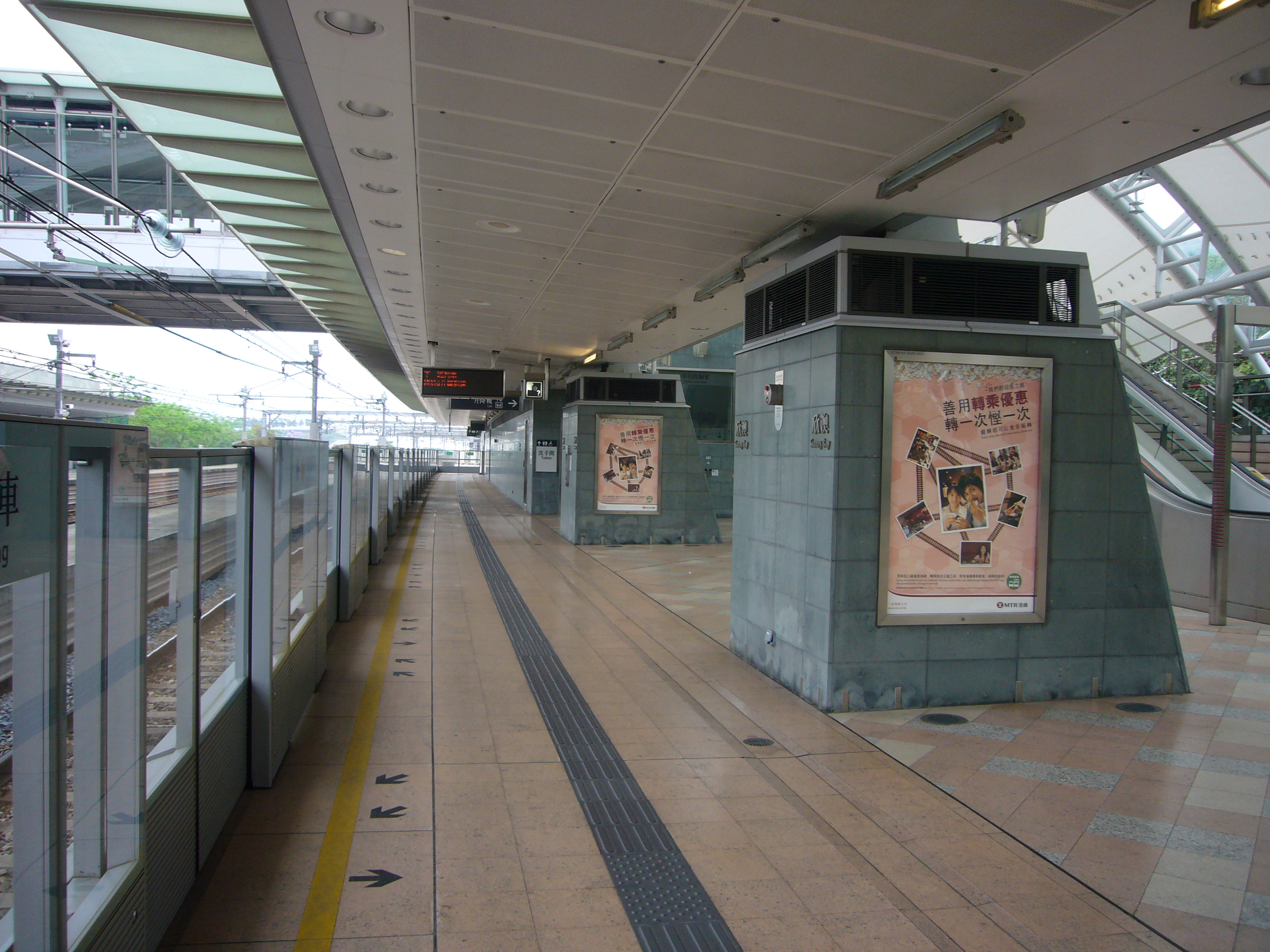 Plat 1 of Sunny Bay station mtr